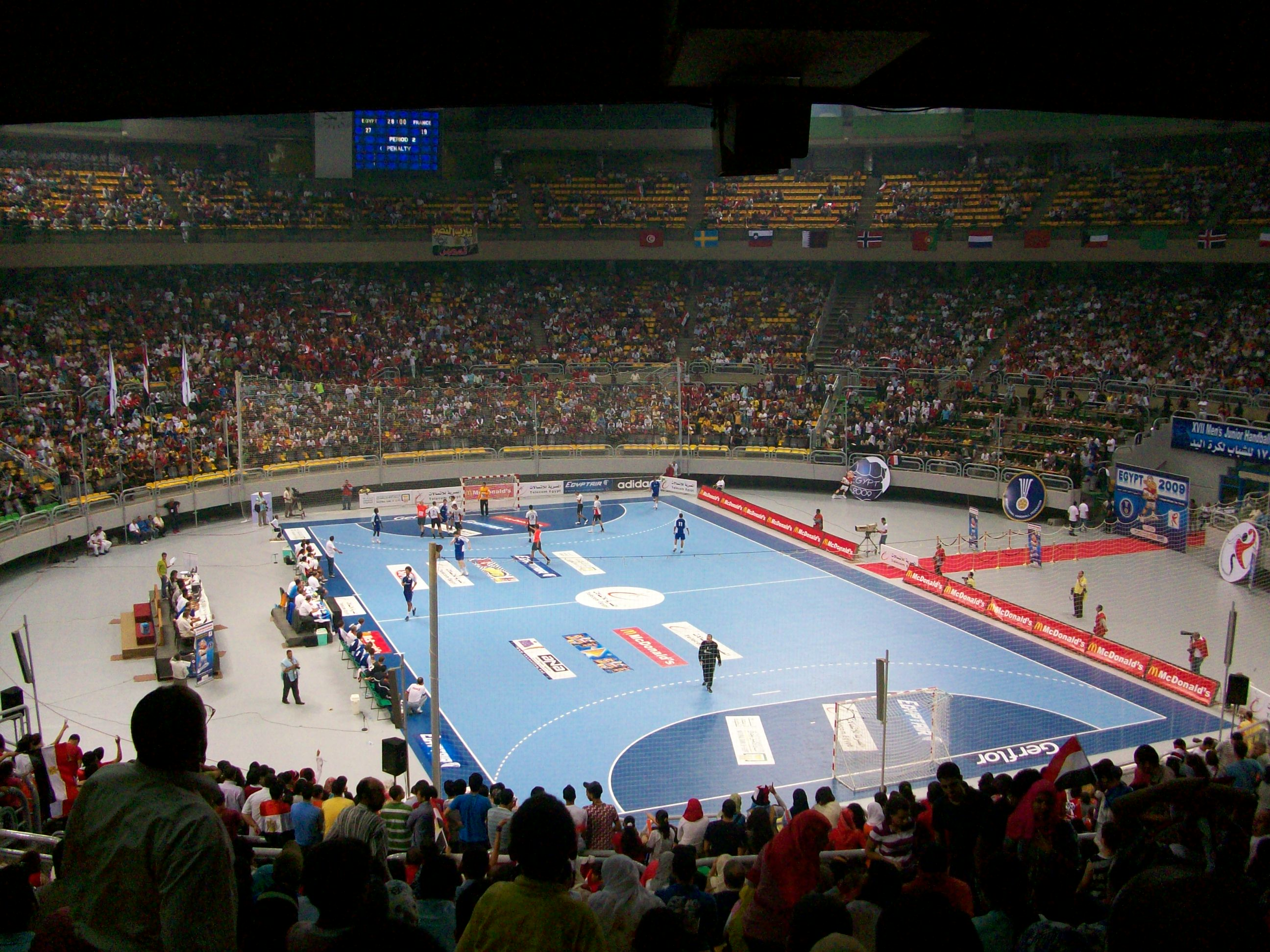 Action from 17th Men's Junior World Handball Championships in Cairo. Egypt vs France.